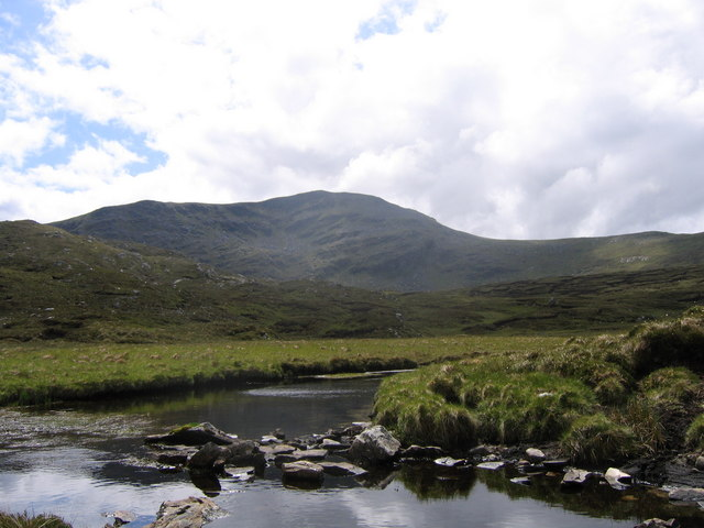 Stream flowing out a lochan near Beinn Leoid. The still waters of a lochan, most of which is hidden, starts to noticebly flow at these rocks. Beinn Leoid is seen to the south